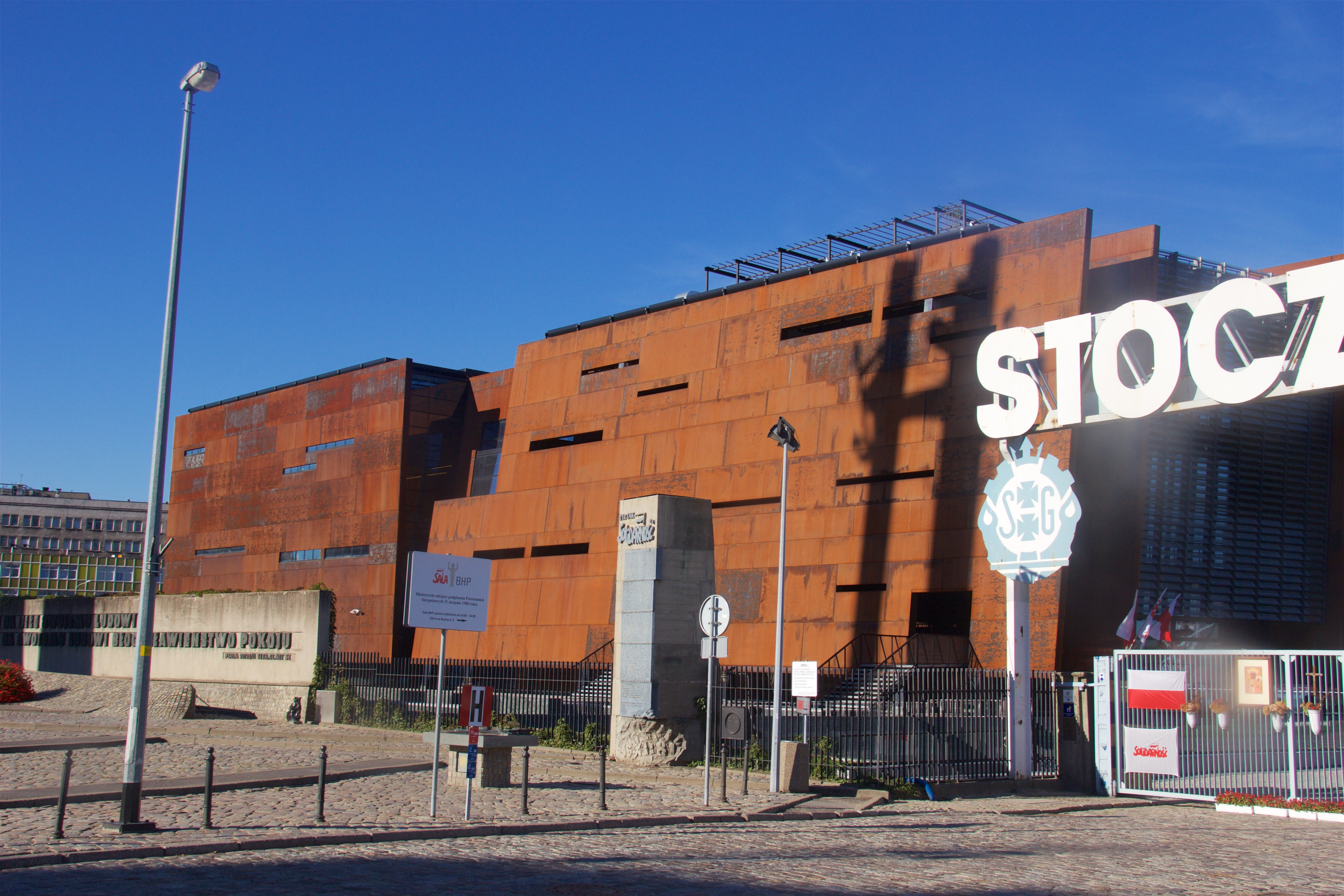 European Solidarity Centre, Gdańsk, Poland.